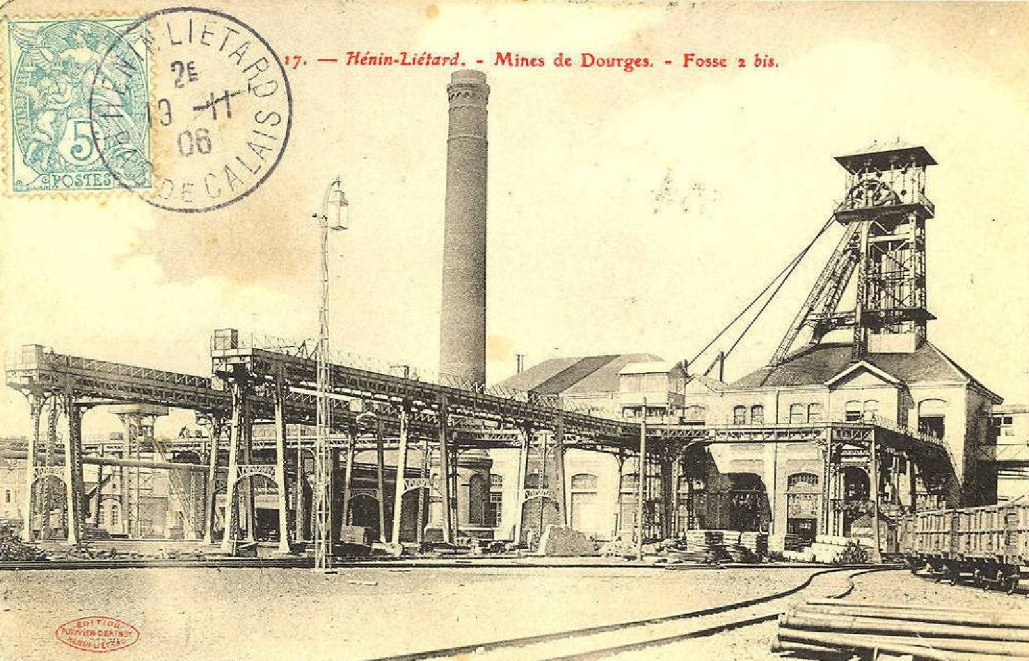 Compagnie des mines de Dourges, Pas-de-Calais, France.